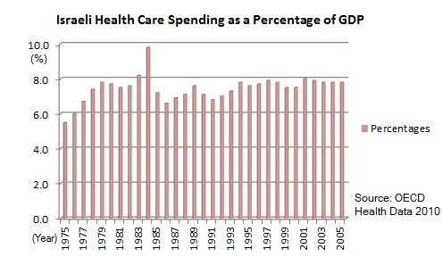 This image indicates Israeli health care spending as a percentage of GDP. An 'OECD Health Data 2010' report is used for the information, which is available here.